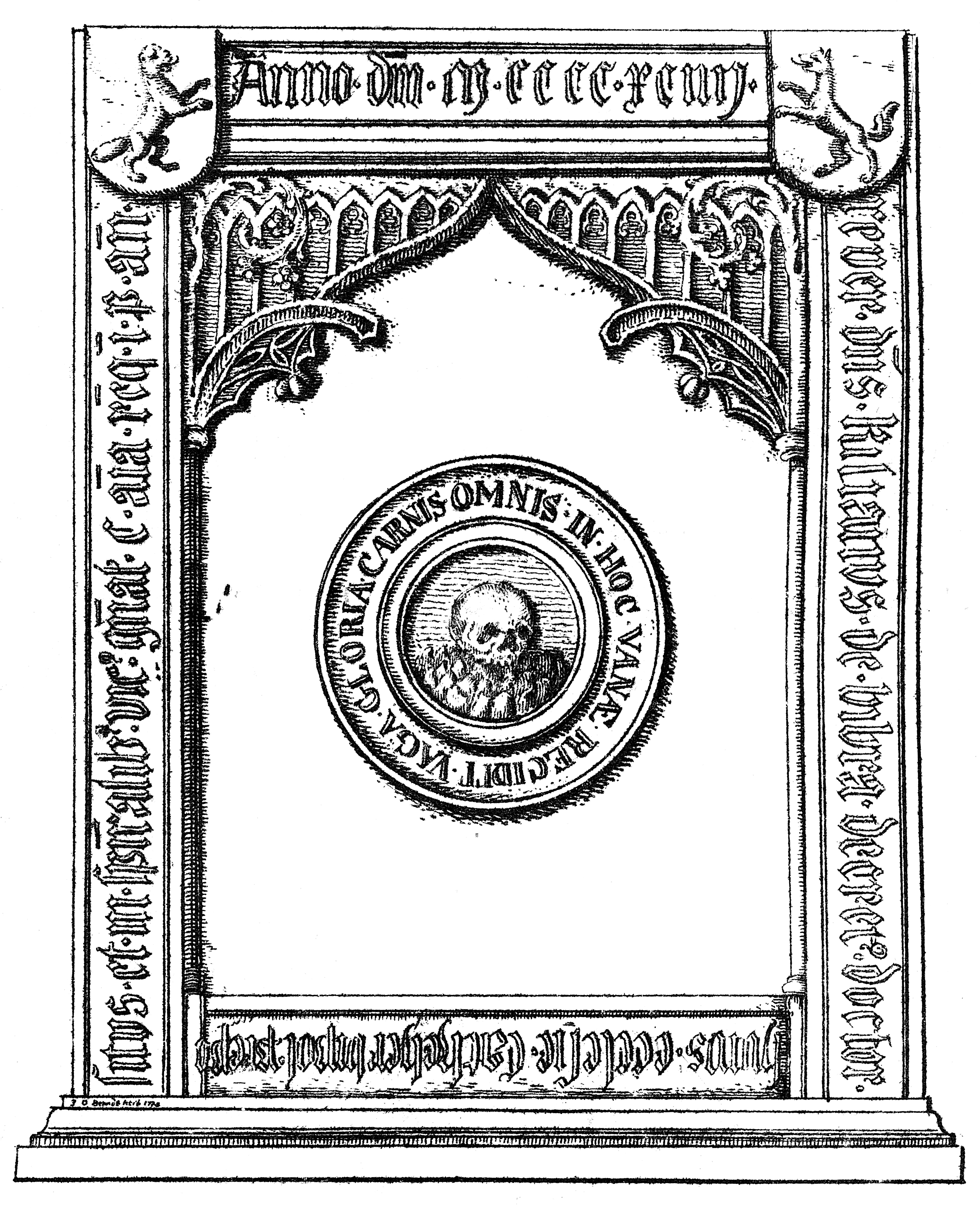 engraving of grave of Kilian von Bibra